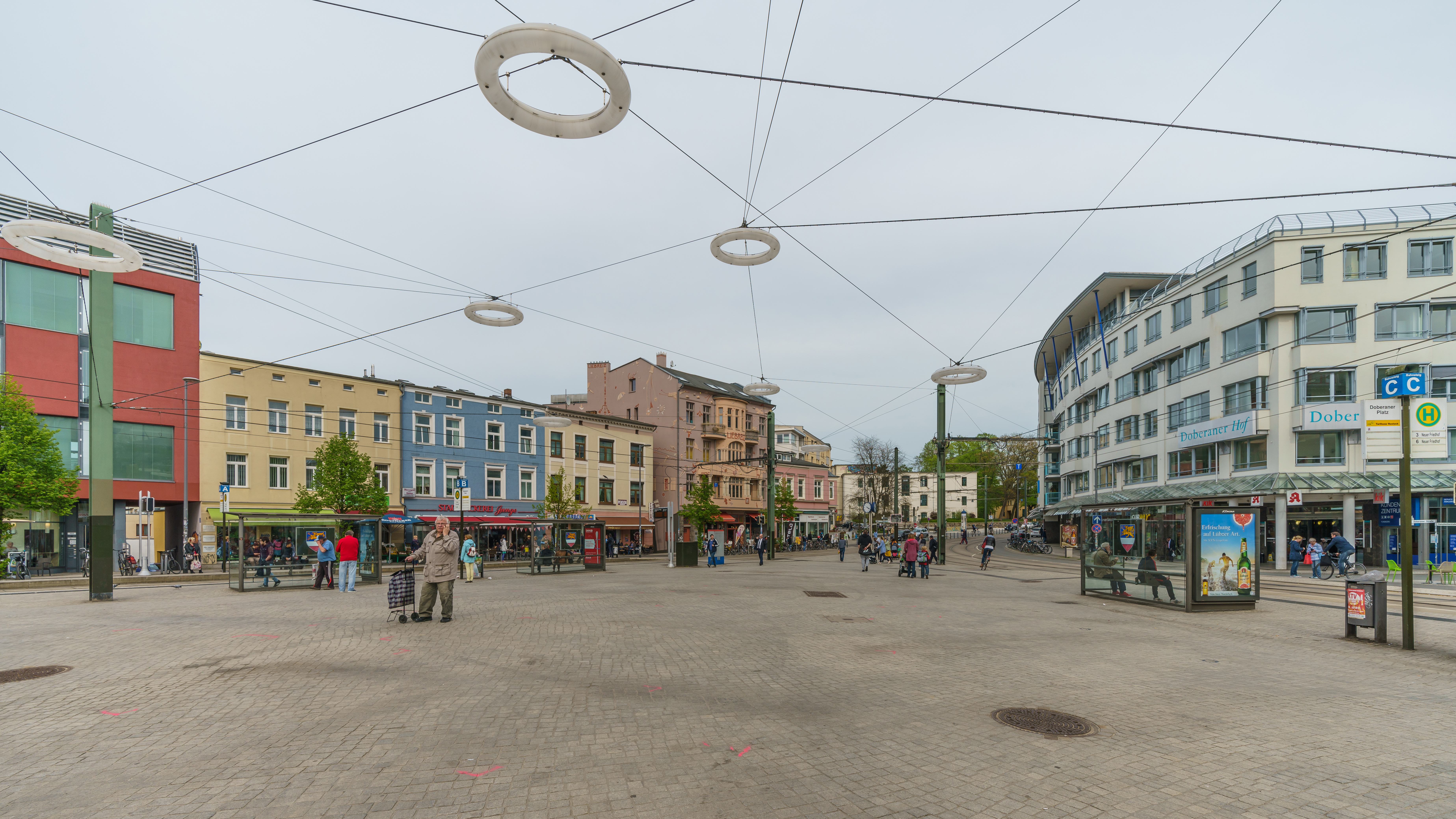 Doberaner Platz in Rostock, Germany